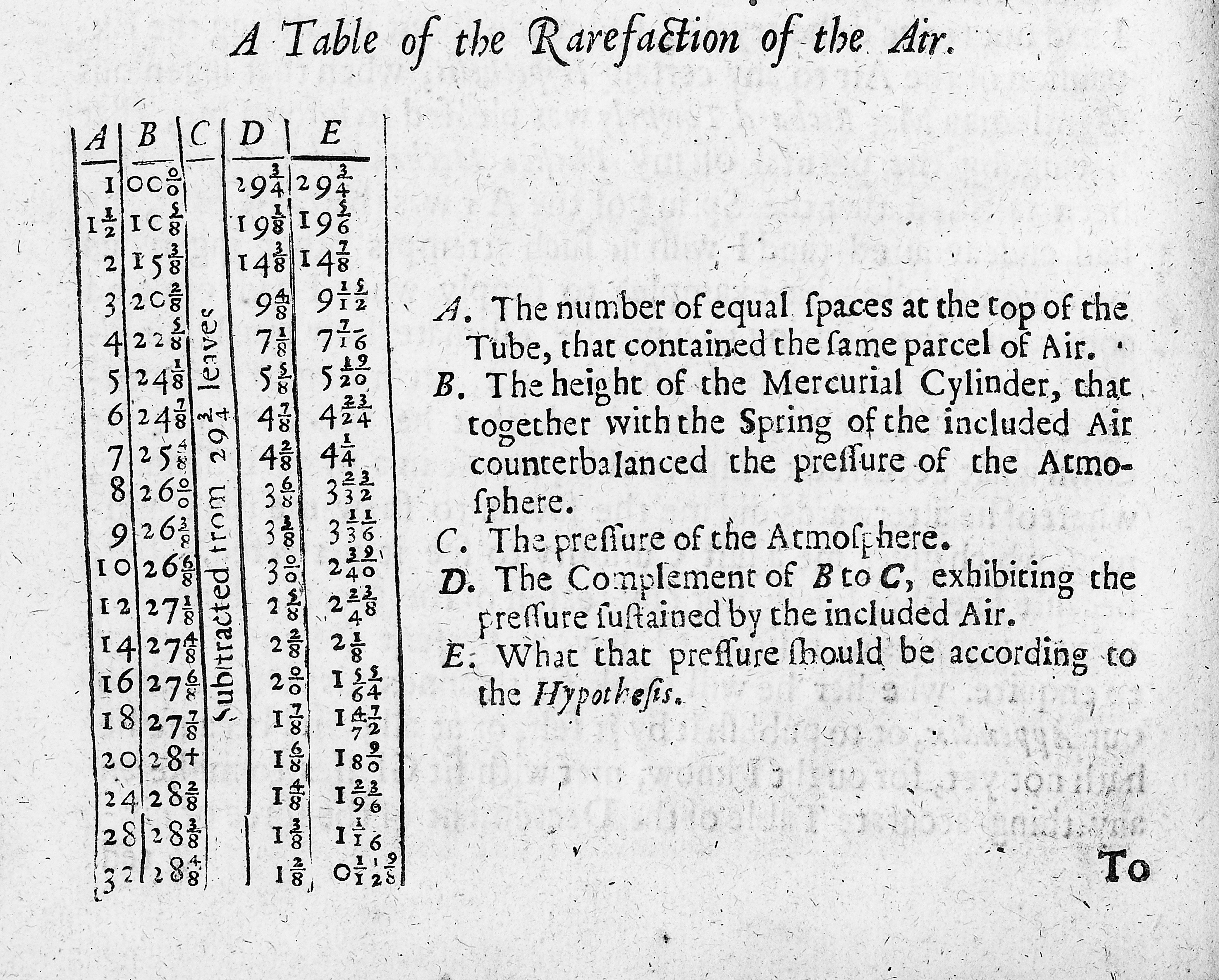 Boyle's Law. Table showing the rarefaction of the air. Rare Books Keywords: Robert Boyle; Physics